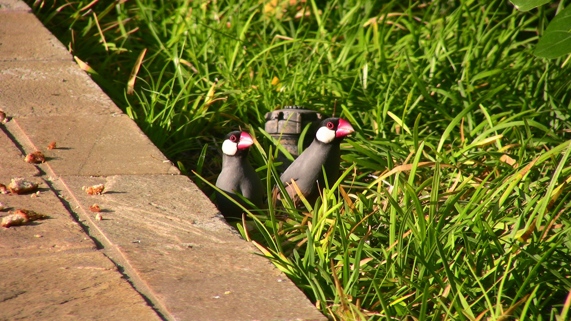 Java Sparrows at Mauna Lani, Hawai'i